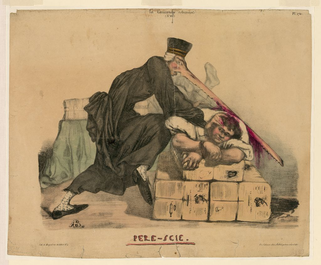 Caricature of French magistrate and politician Jean-Charles Persil (1785-1870) as "Père-scie" ("Father Saw"). Library of Congress description : "Print shows Jean-Charles Persil wearing minister's robes, with long saw-toothed nose with which he attempts to decapitate Charles Philipon who is lying on a stack of "La Caricature" volumes with his hands bound."